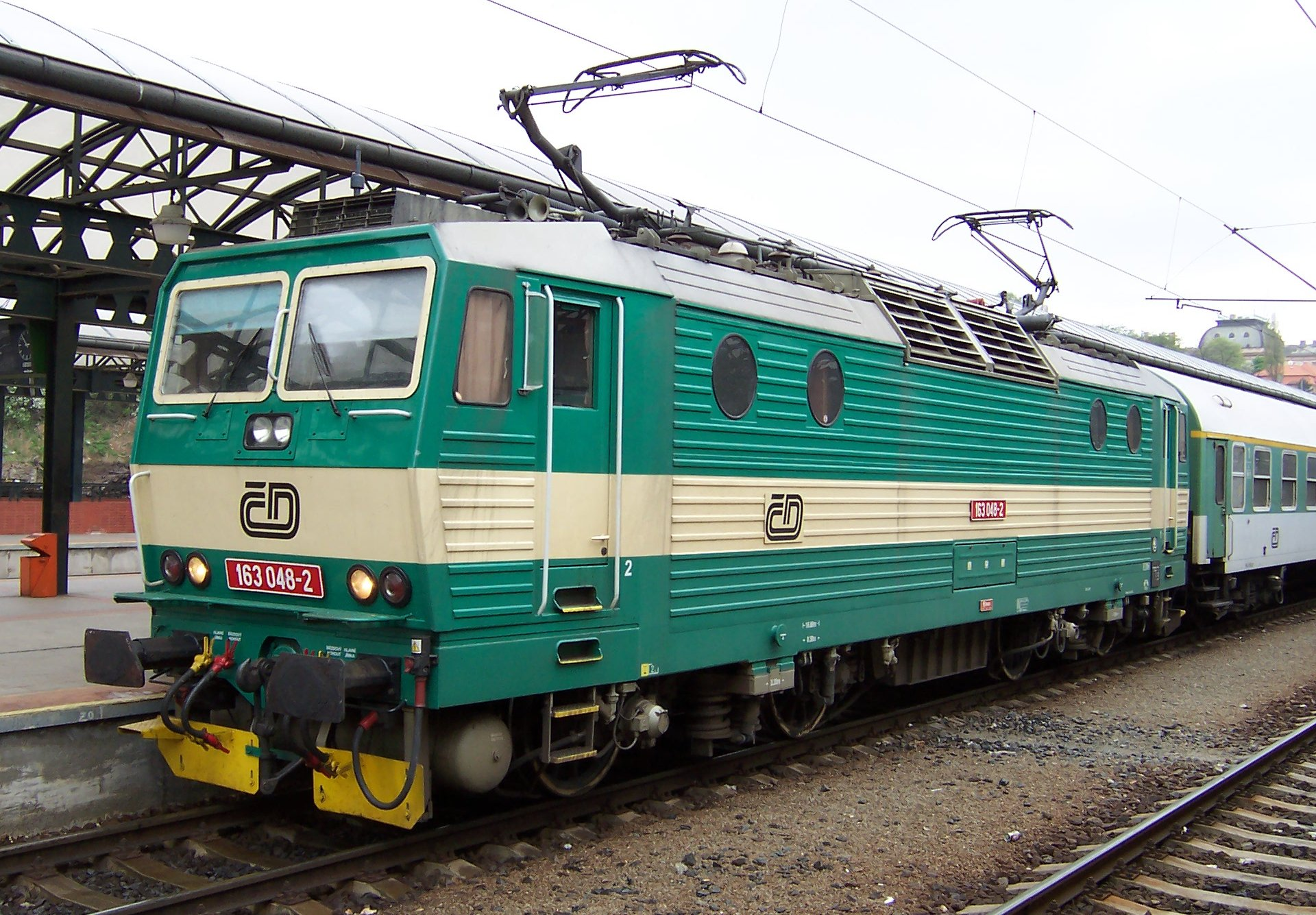 Czech electric locomotive class 163 at Hlavní nádraží railway station in Prague.